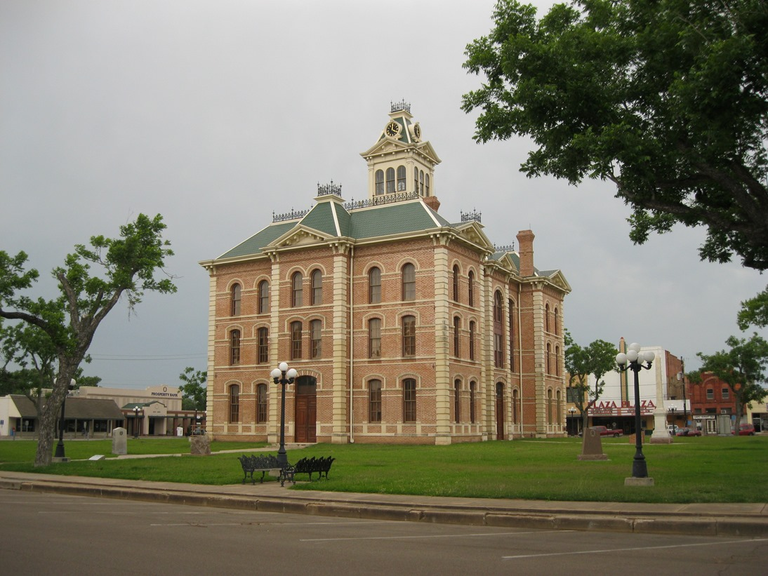 Photo shows the Wharton County Courthouse from Fulton Street in Wharton, Texas. View is to the west.